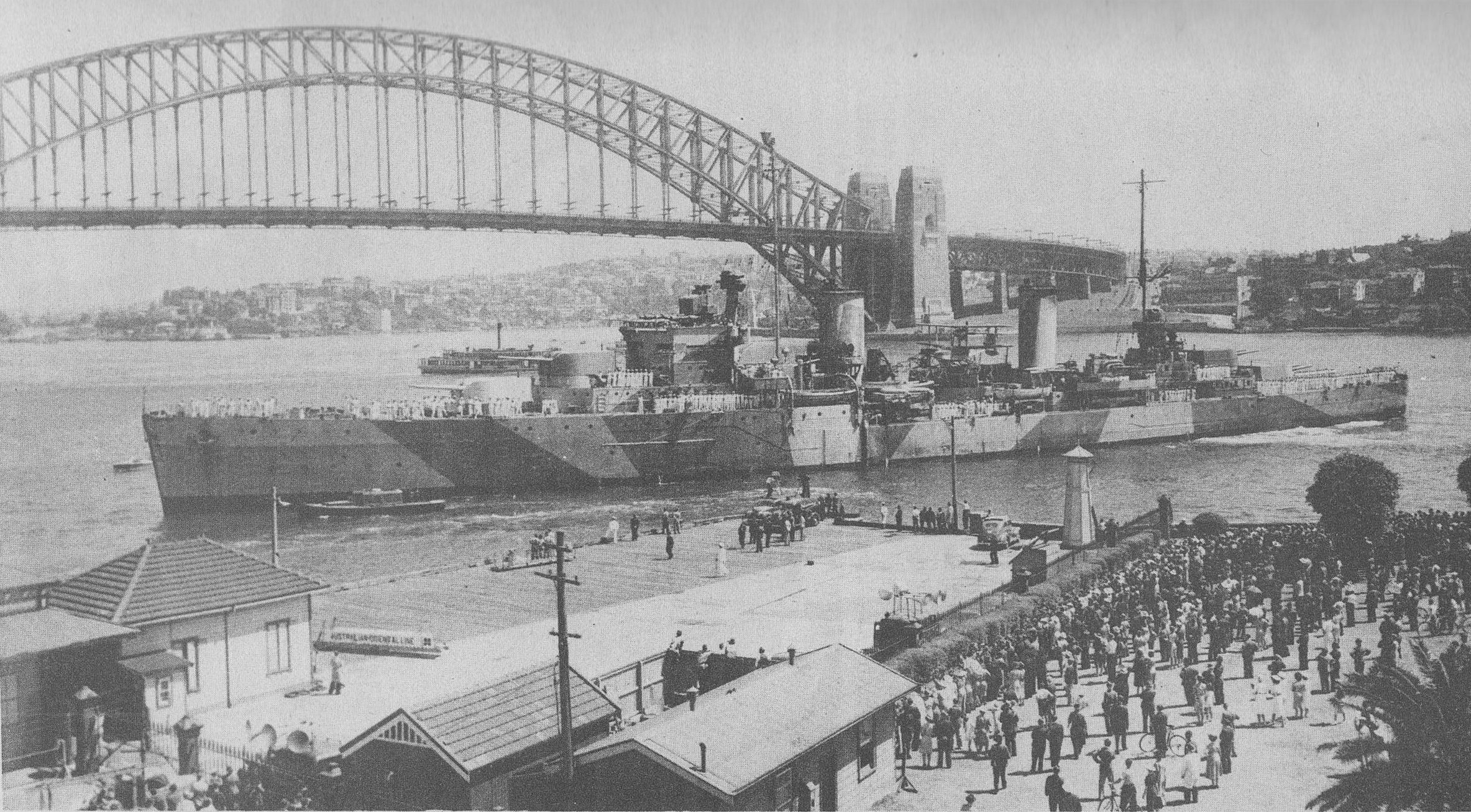 The Australian Leander class light cruiser HMAS Sydney coming alongside at Circular Quay in Sydney Harbour